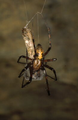 Meta menardi in Baradla Cave, Hungary